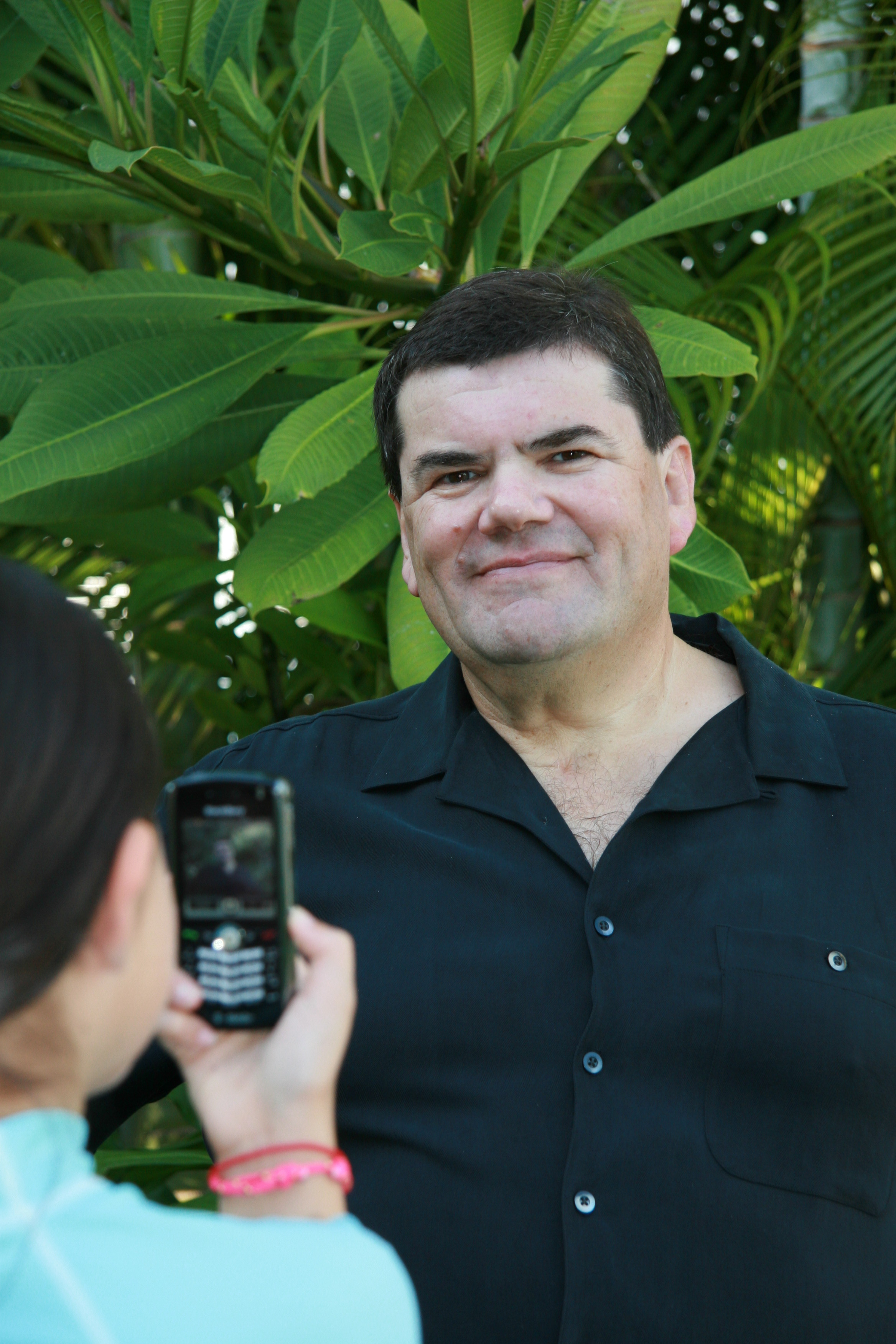 10 years later, Sophie take a picture of Dad (Philippe)